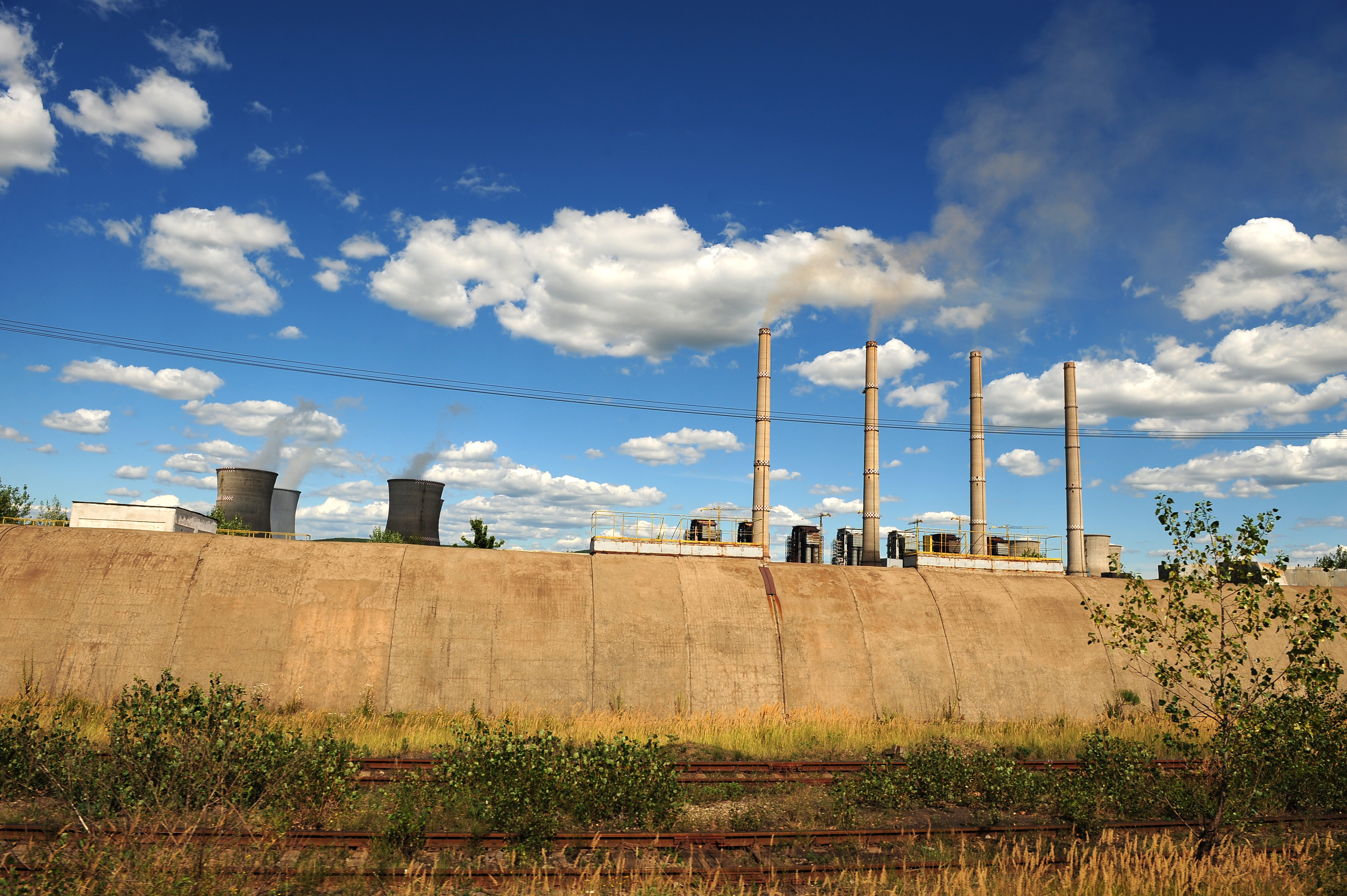 Turceni